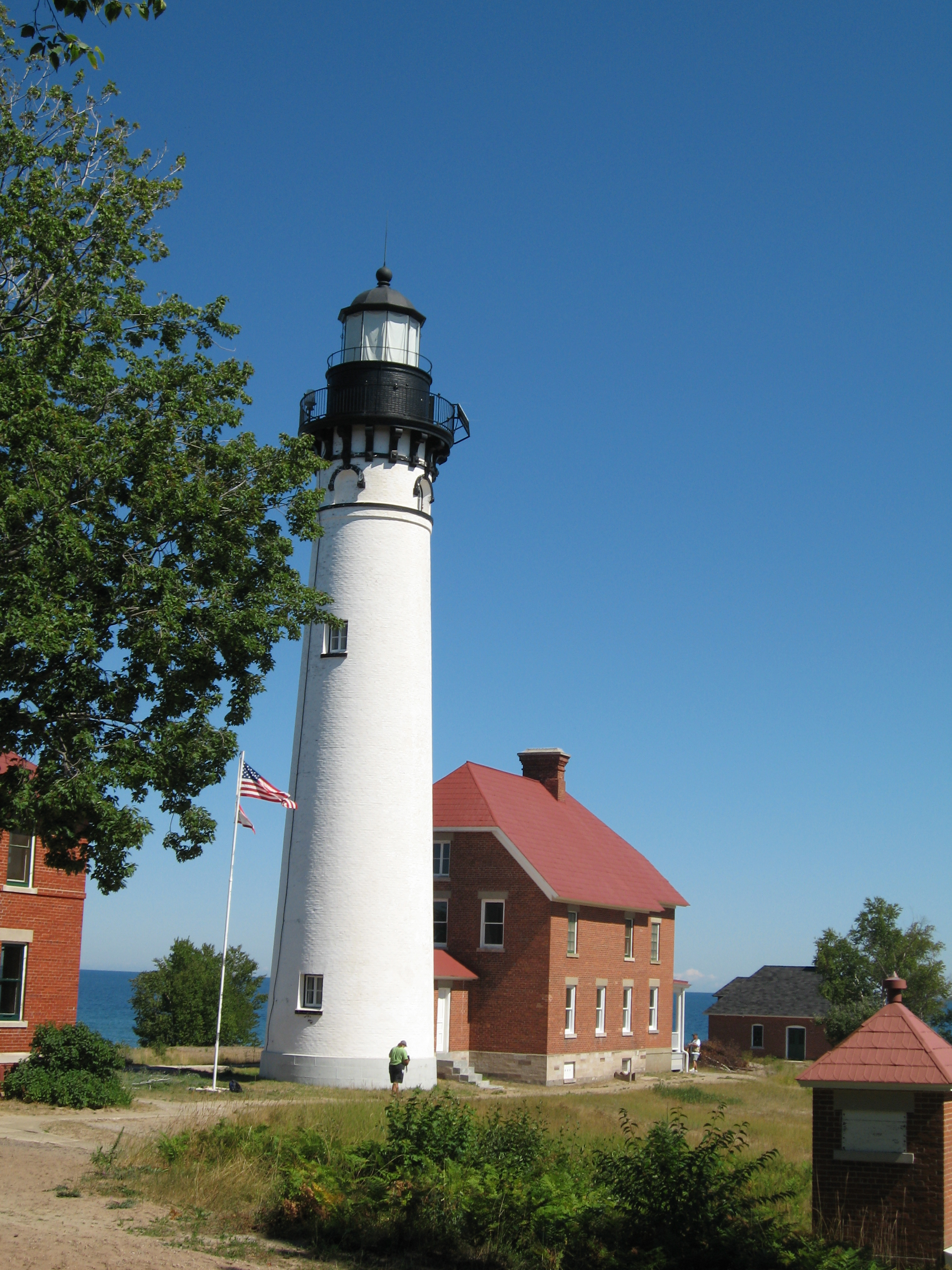 Au Sable Light Station in Pictured Rock National LakeShore